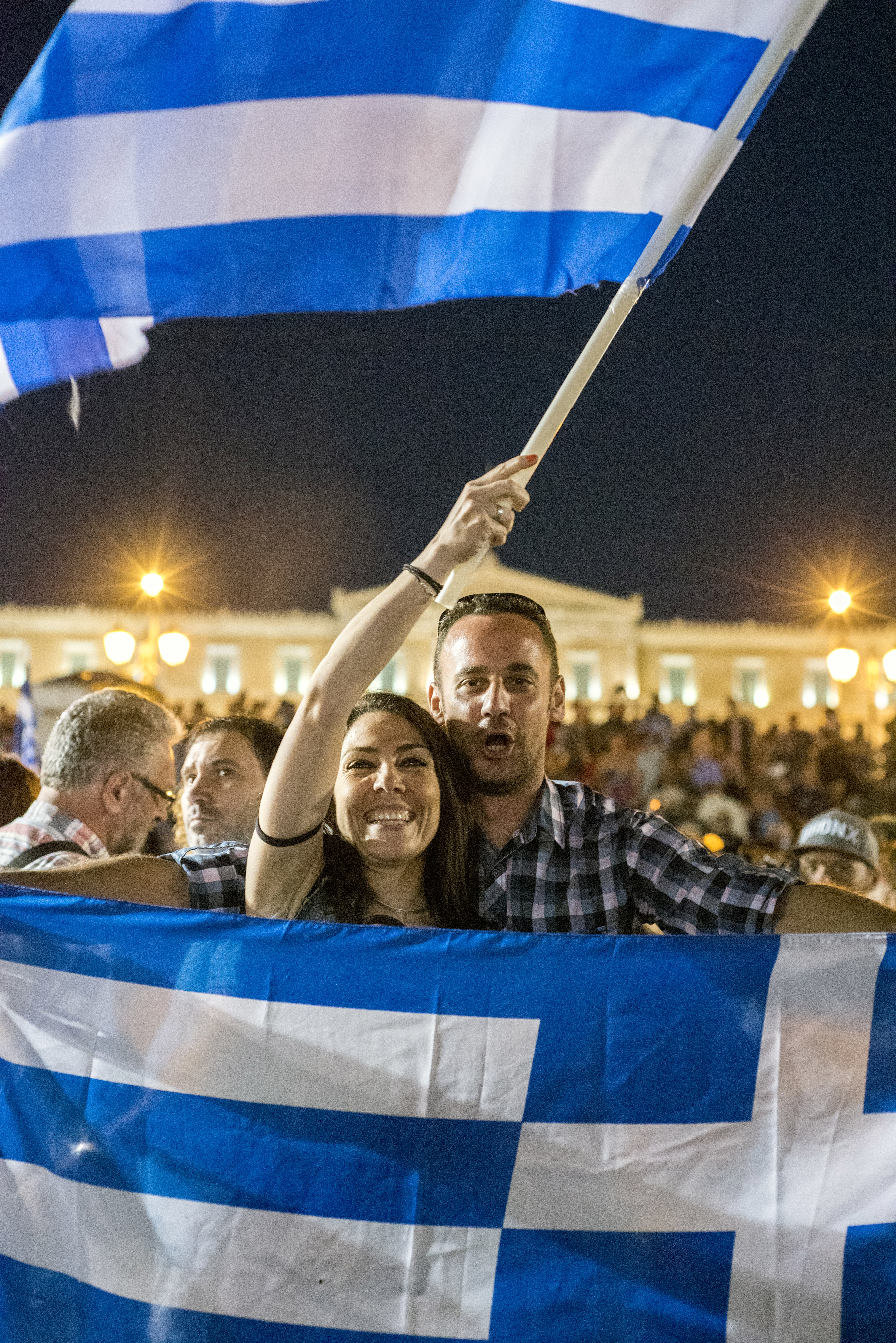 People celebrating the win of "NO" in the Greek Referndum, Syntagma square, Athens, Greece.